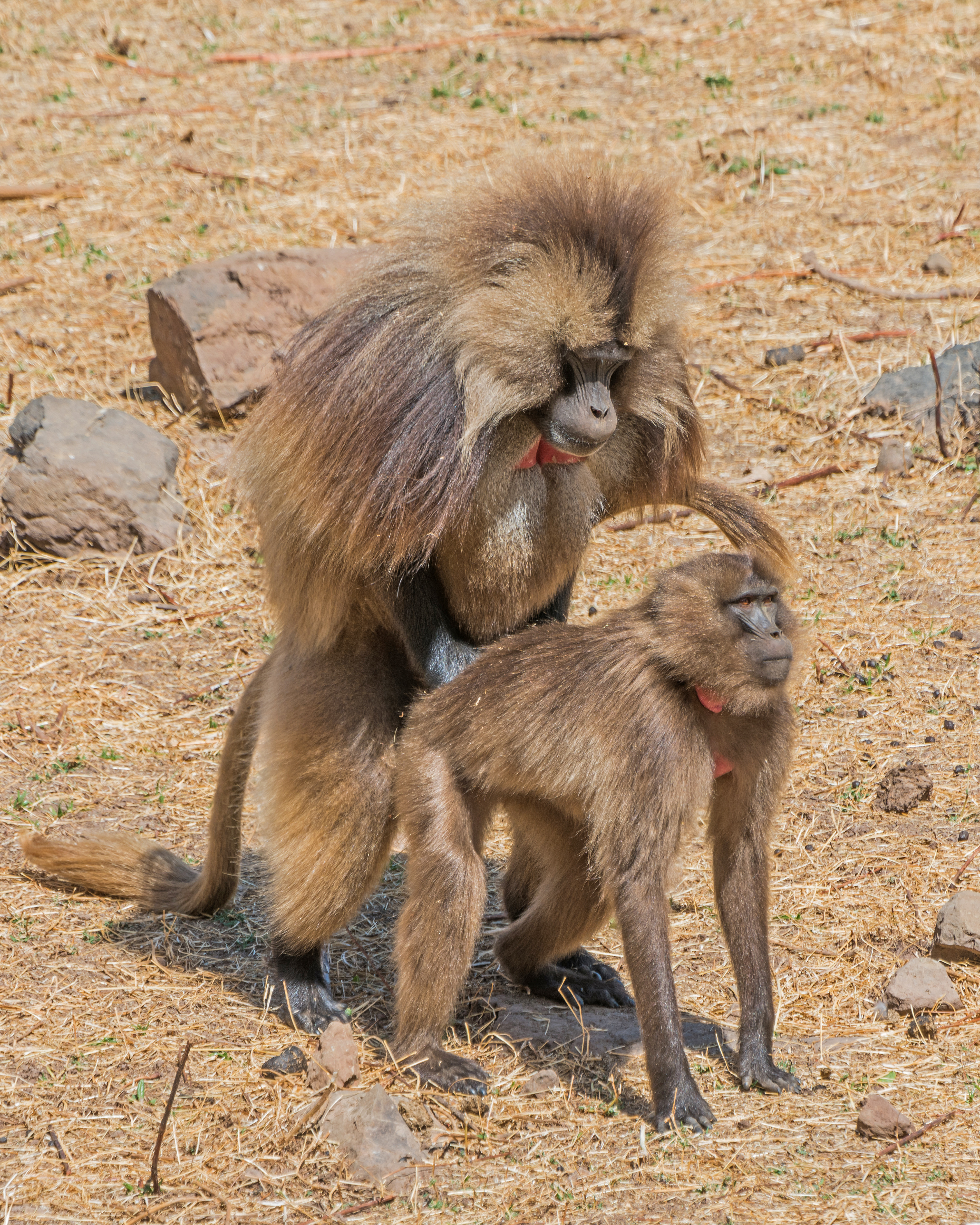 Gelada baboons at Wunenia near Gondar, Ethiopia